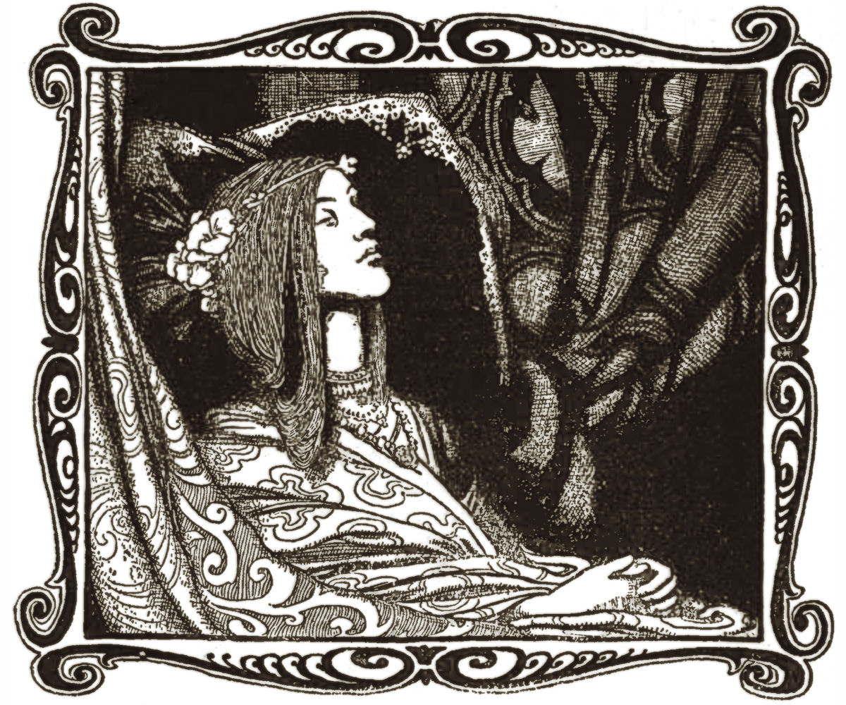 Illustration to a poem by poe published 1900